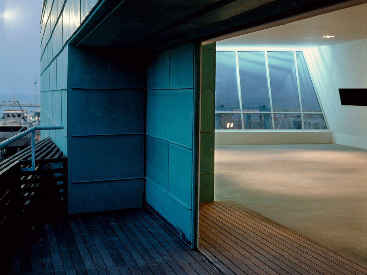 IPSSAR school in San Benedetto del Tronto